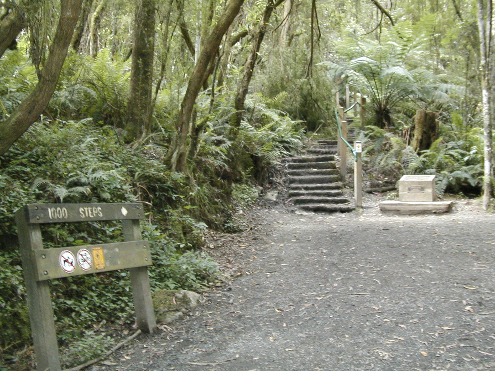 Les 1000 marches, Monts Dandenongs, Victoria, Australie